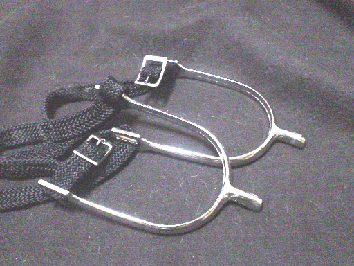 Spurs used in equestrianism